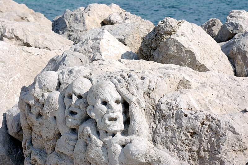 Sculptures in Caorle, Italy.